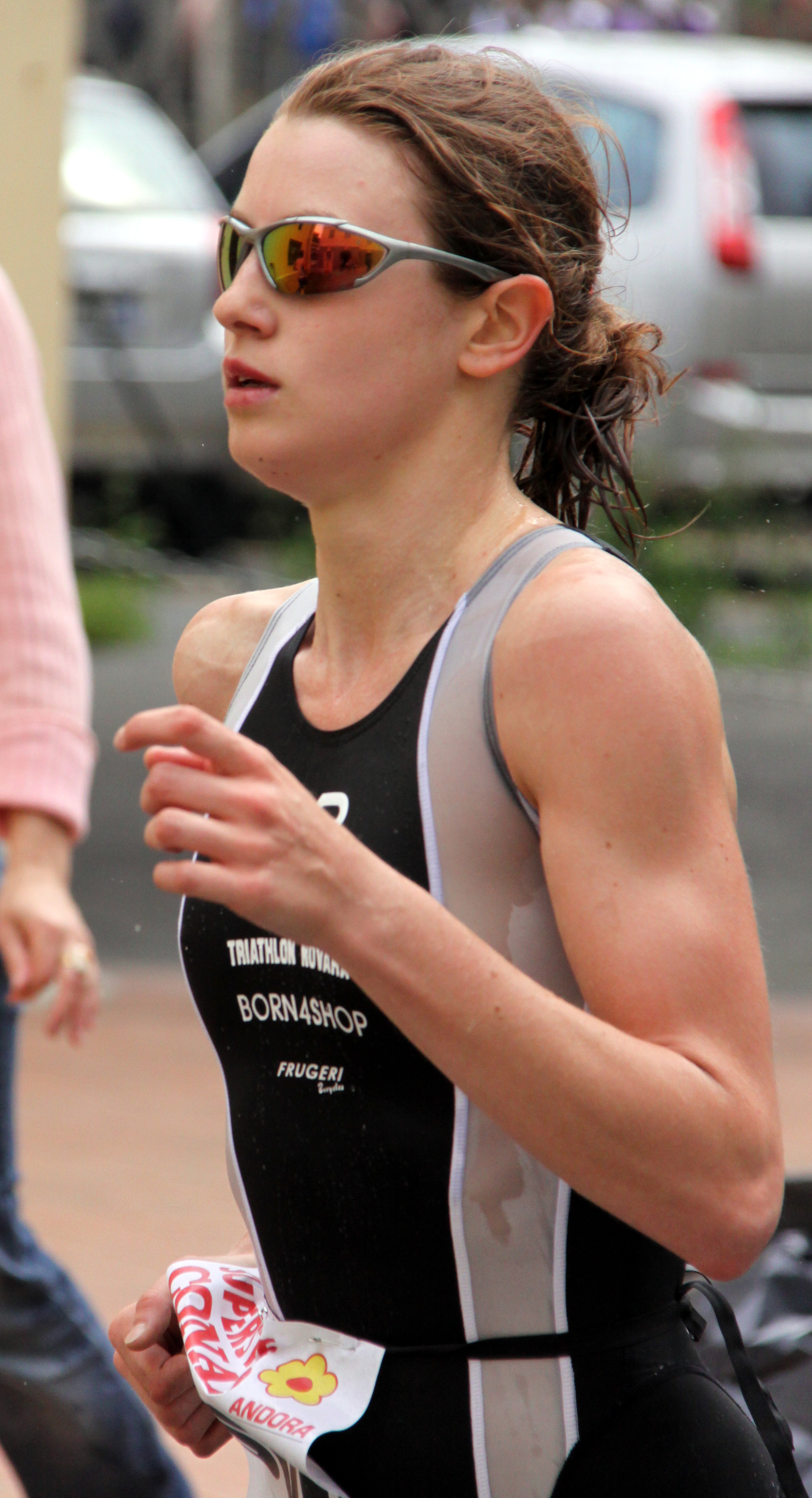 Alice Betto winning the Triathlon di Andora 2010